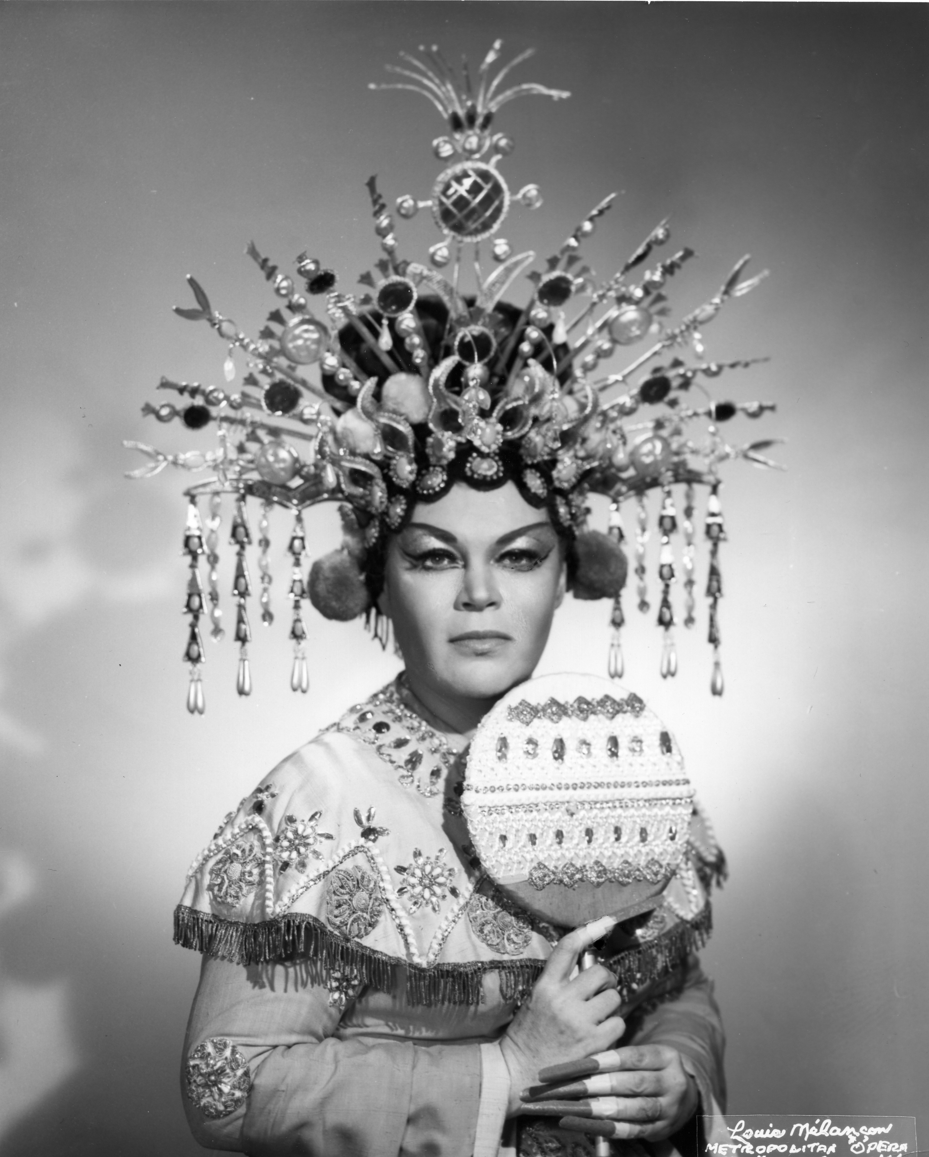 Elinor Ross in the title role of Turandot, Met 1970's (photo Louis Melancon)